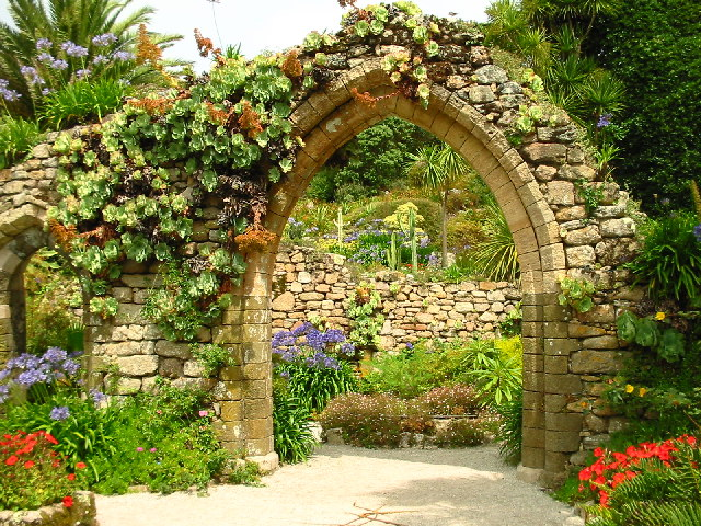 The Abbey Garden, Tresco.